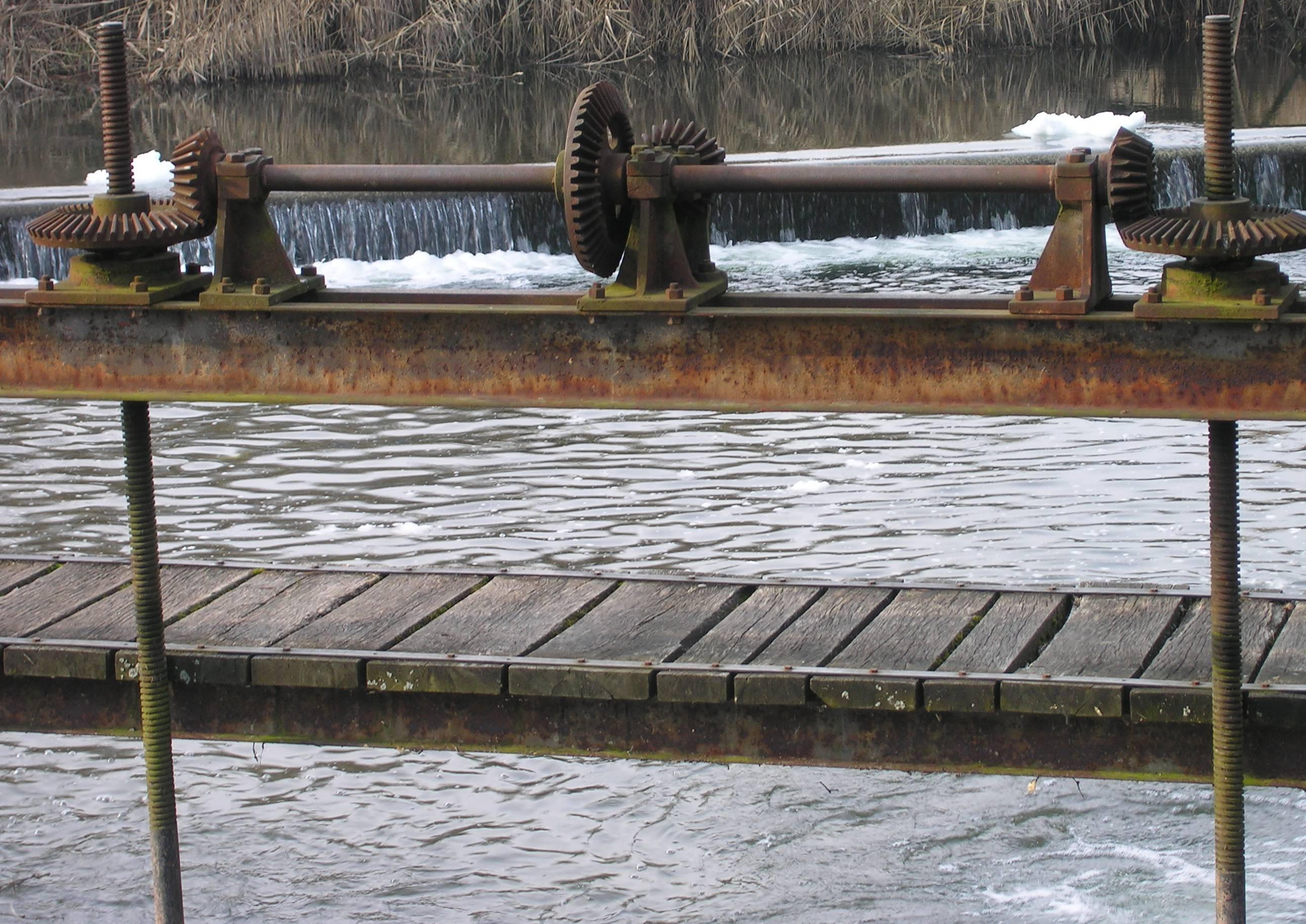 The small flood gate in Dübendorf, Switzerland. Combines bevel gear with the screw thread.